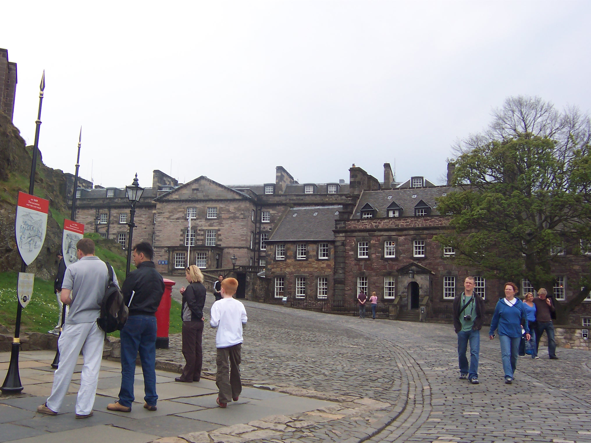 The Military (Army) Buildings at Edinburgh Castle, Scotland.